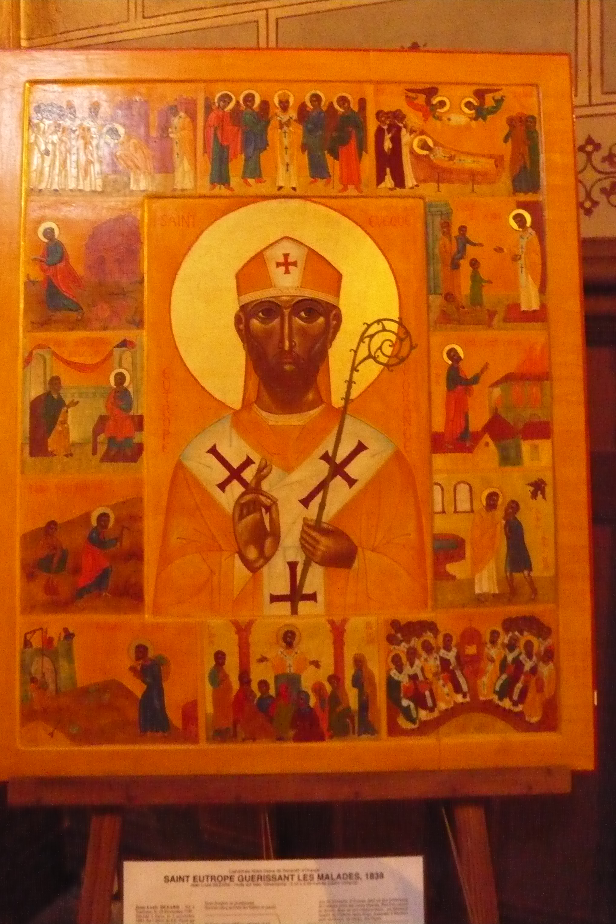 Saint Eutrope, Cathédrale Notre-Dame-de-Nazareth d'Orange, France .